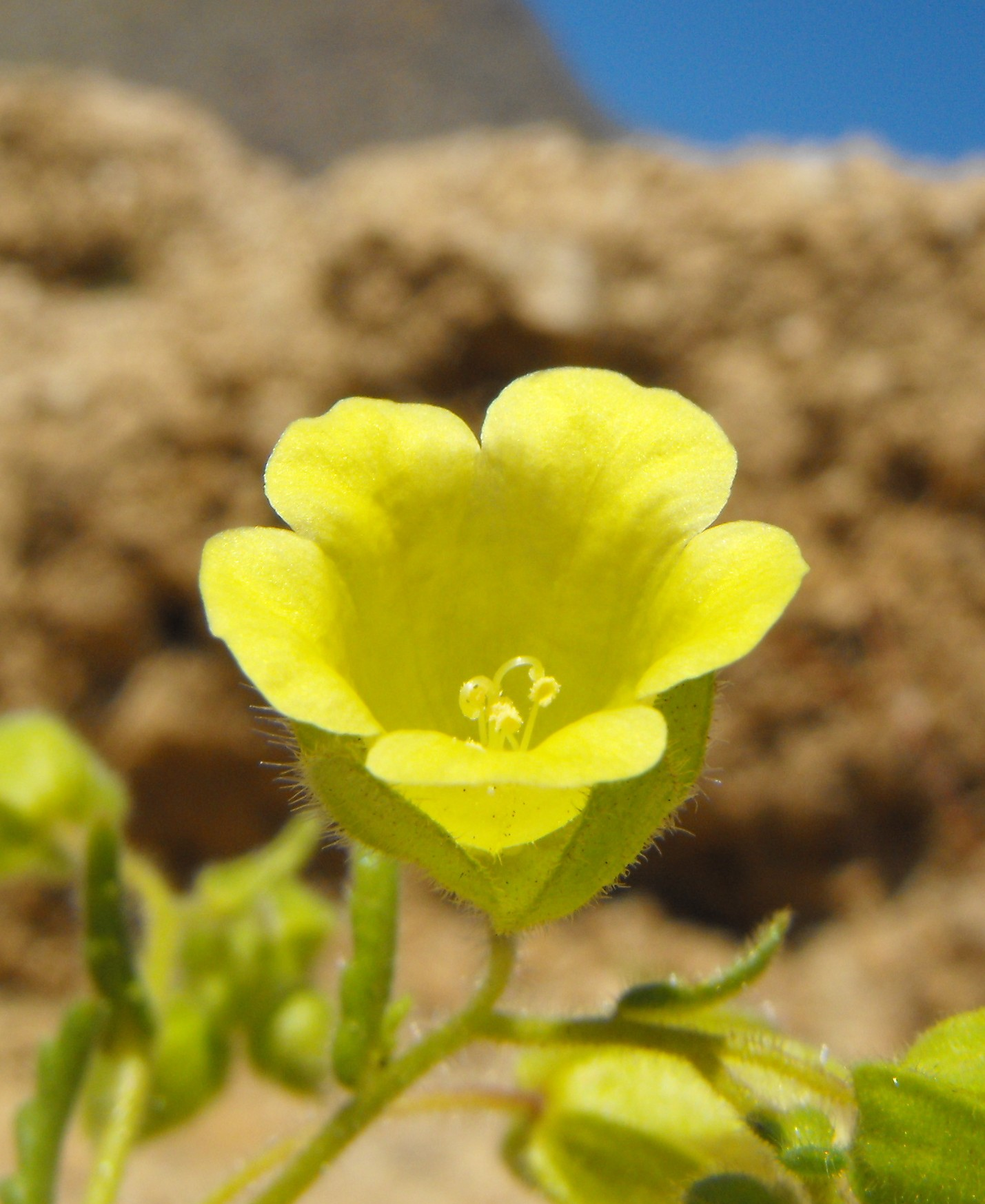 Emmenanthe penduliflora in Anza Borrego Desert State Park, California, USA.